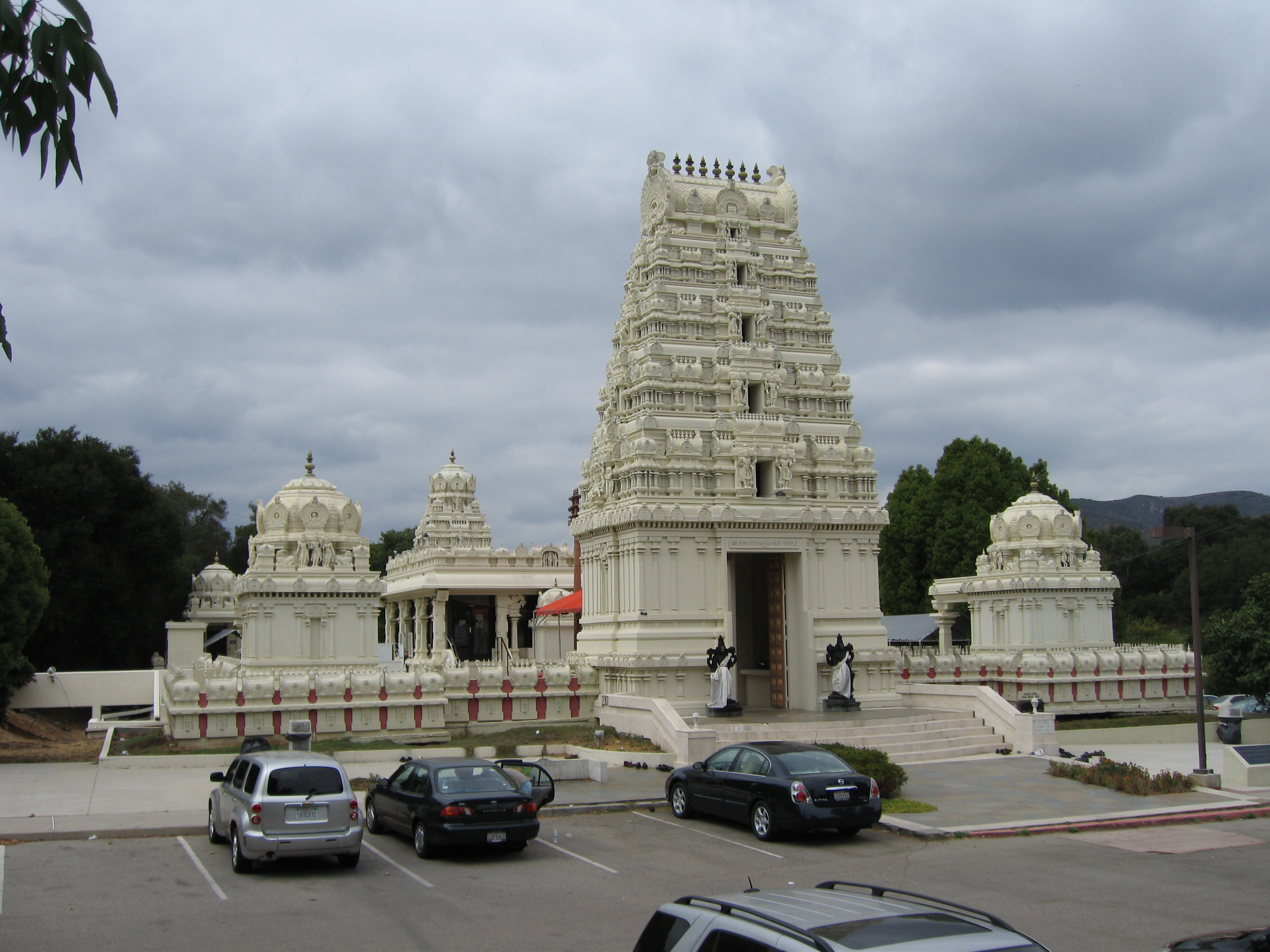 The Hindu Temple at Malibu, California.